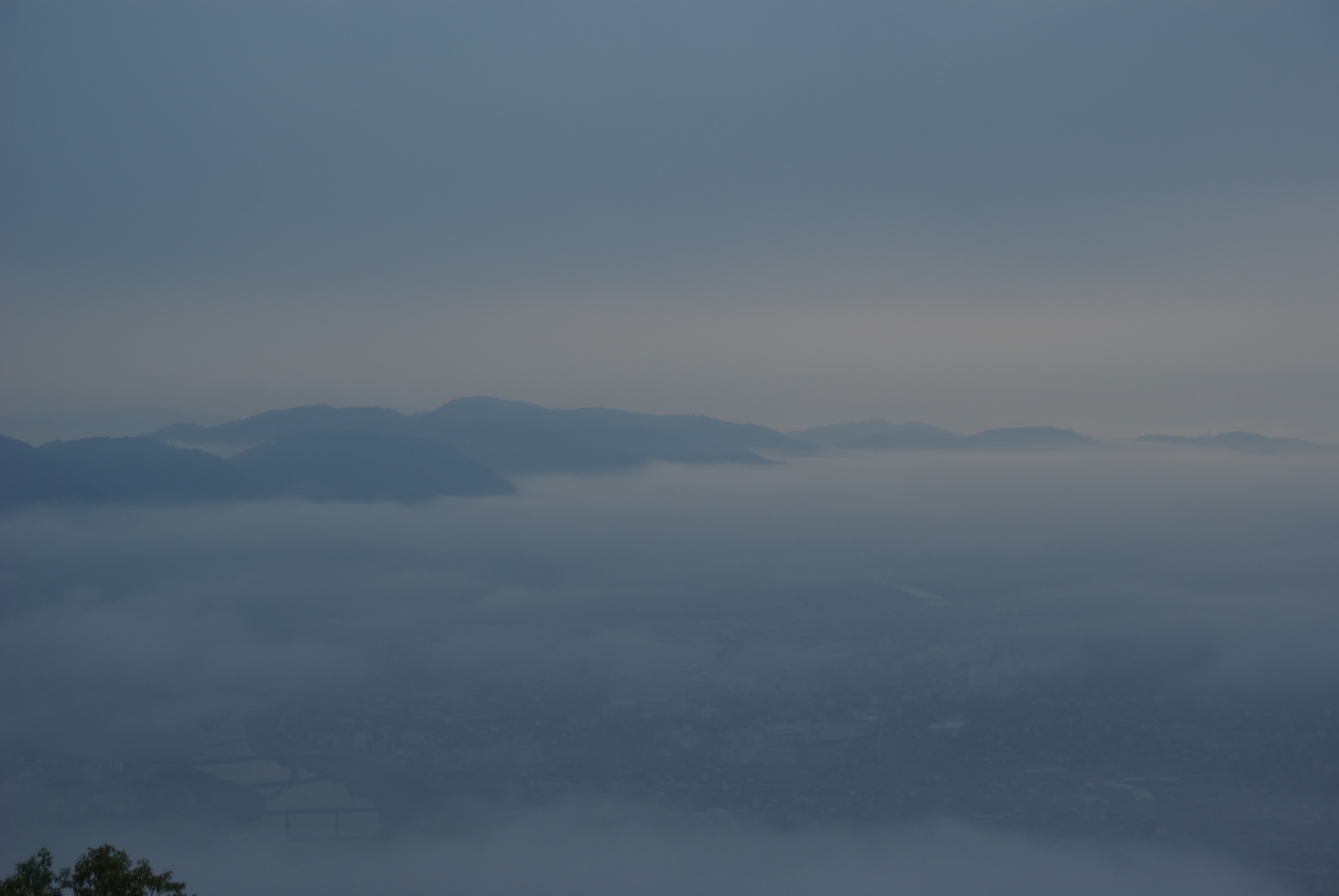 Morning mist, Miyoshi, Hiroshima, Japan